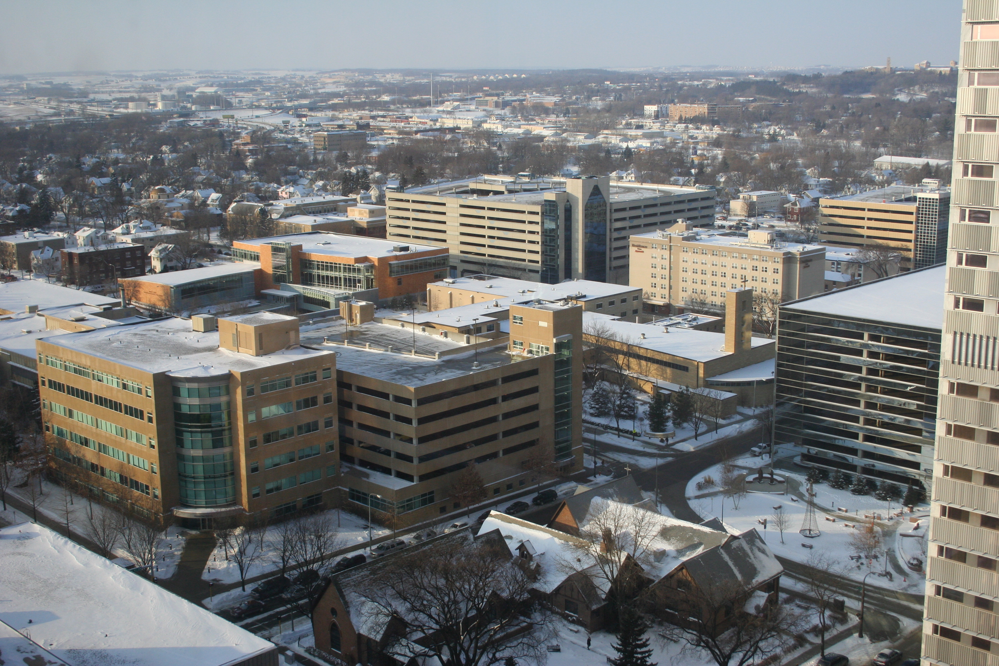 View to the northwest from the Mayo Clinic on Christmas Eve in downtown Rochester, Minnesota.